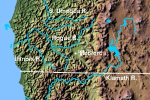 Map of rivers in southwest Oregon